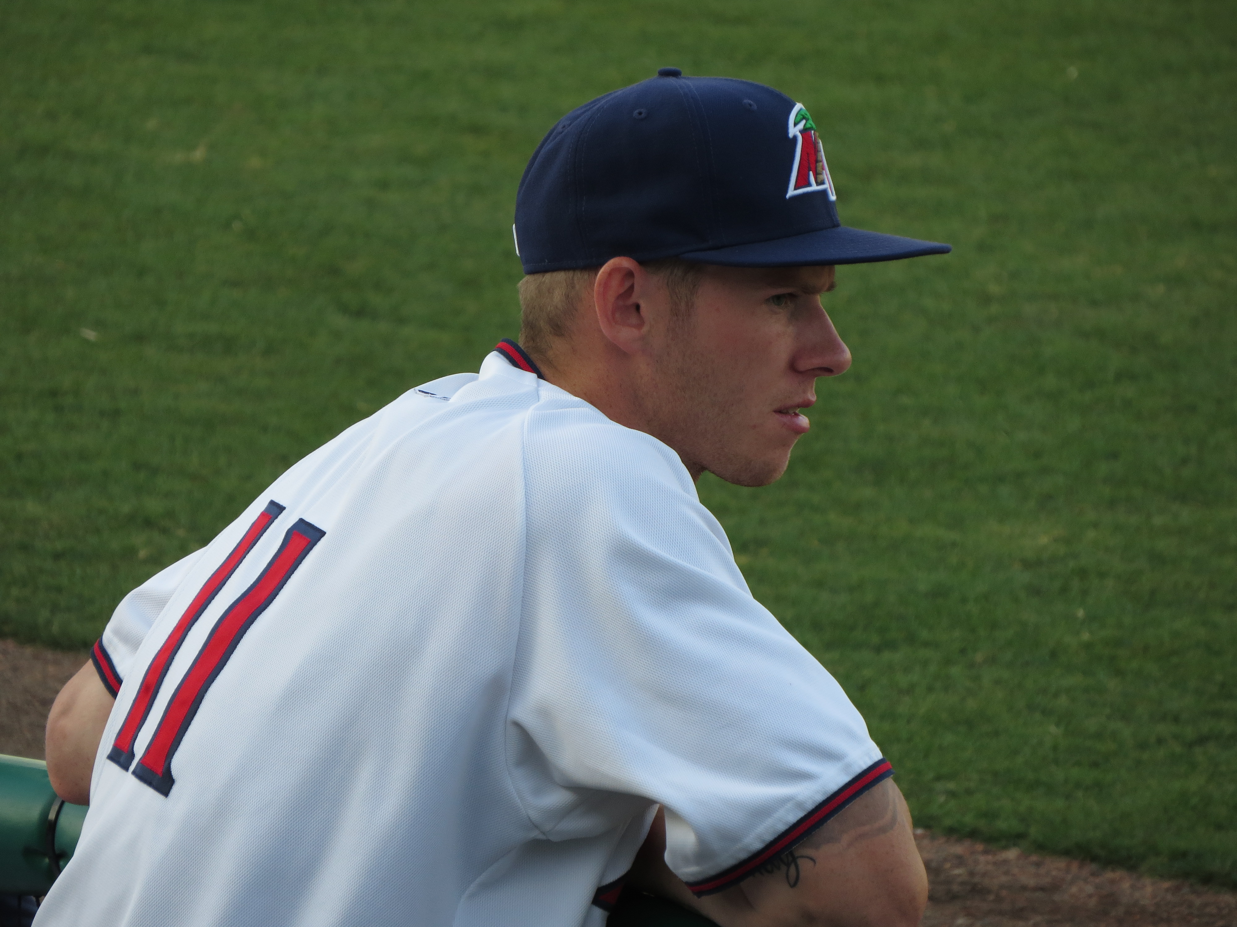 Tyler Jay in a game